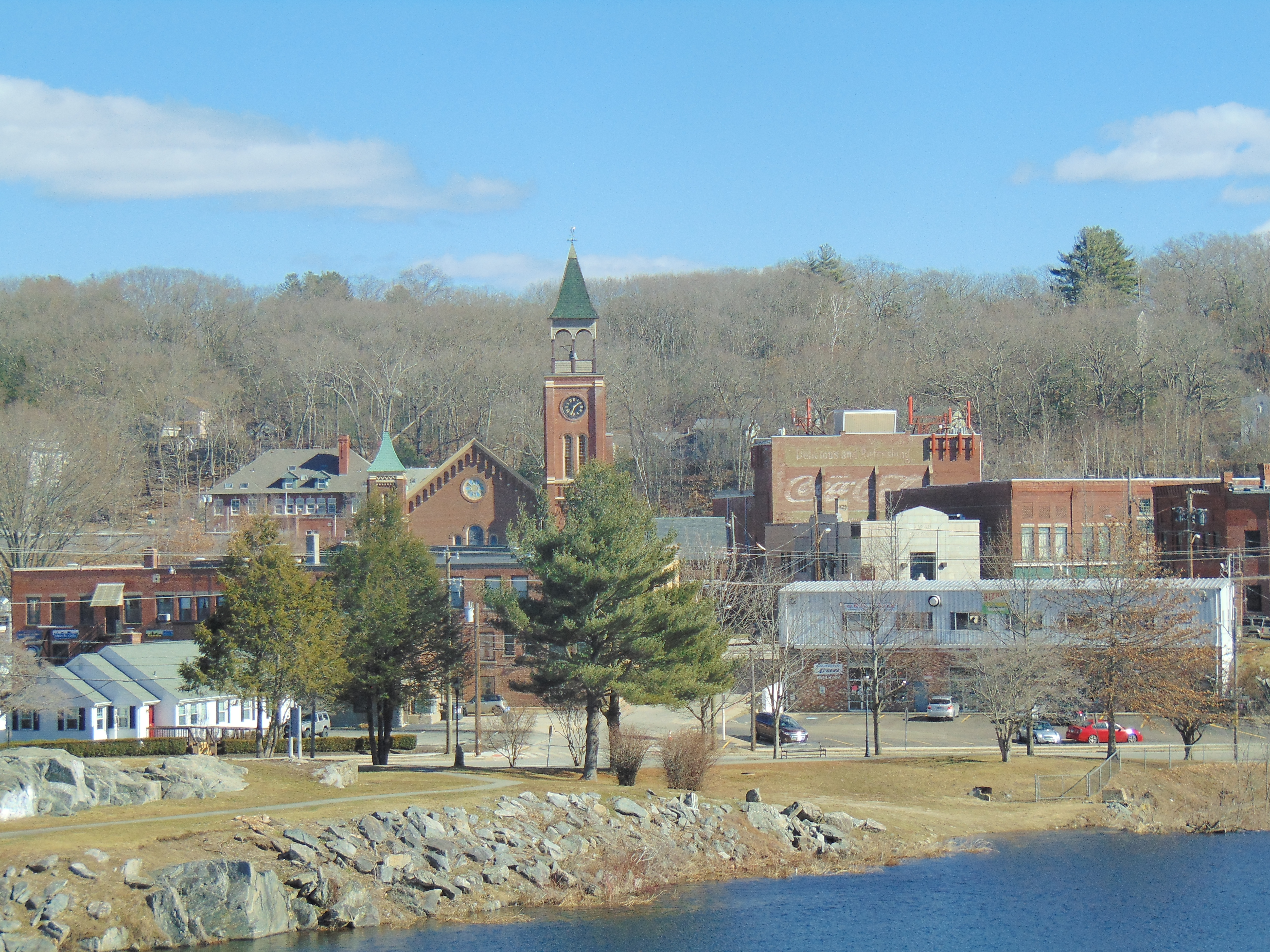 A photo of the center of Putnam in Connecticut